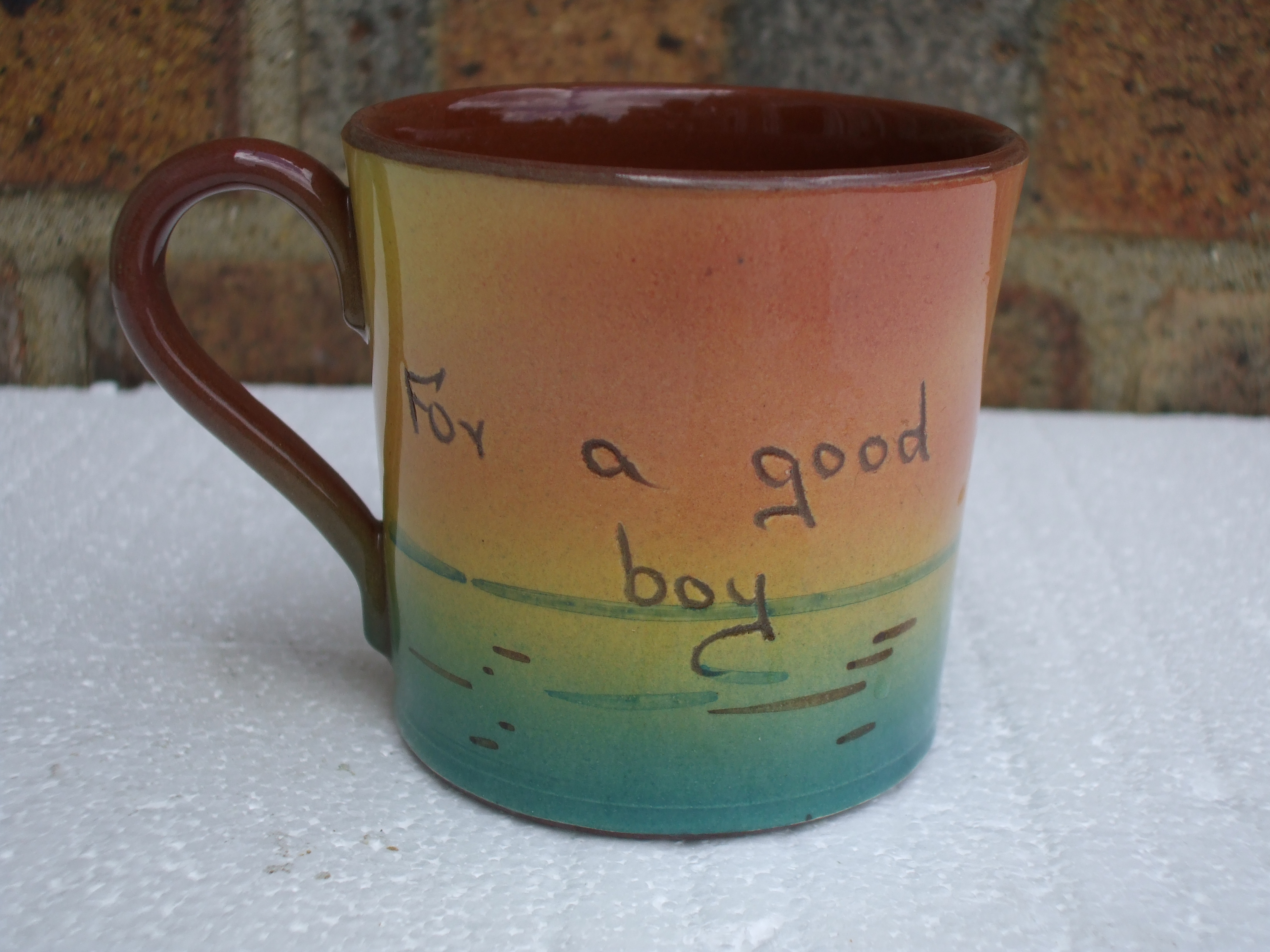 Vintge Torquay Pottery Sailing Ship Motto Ware Mug " For A Good Boy"